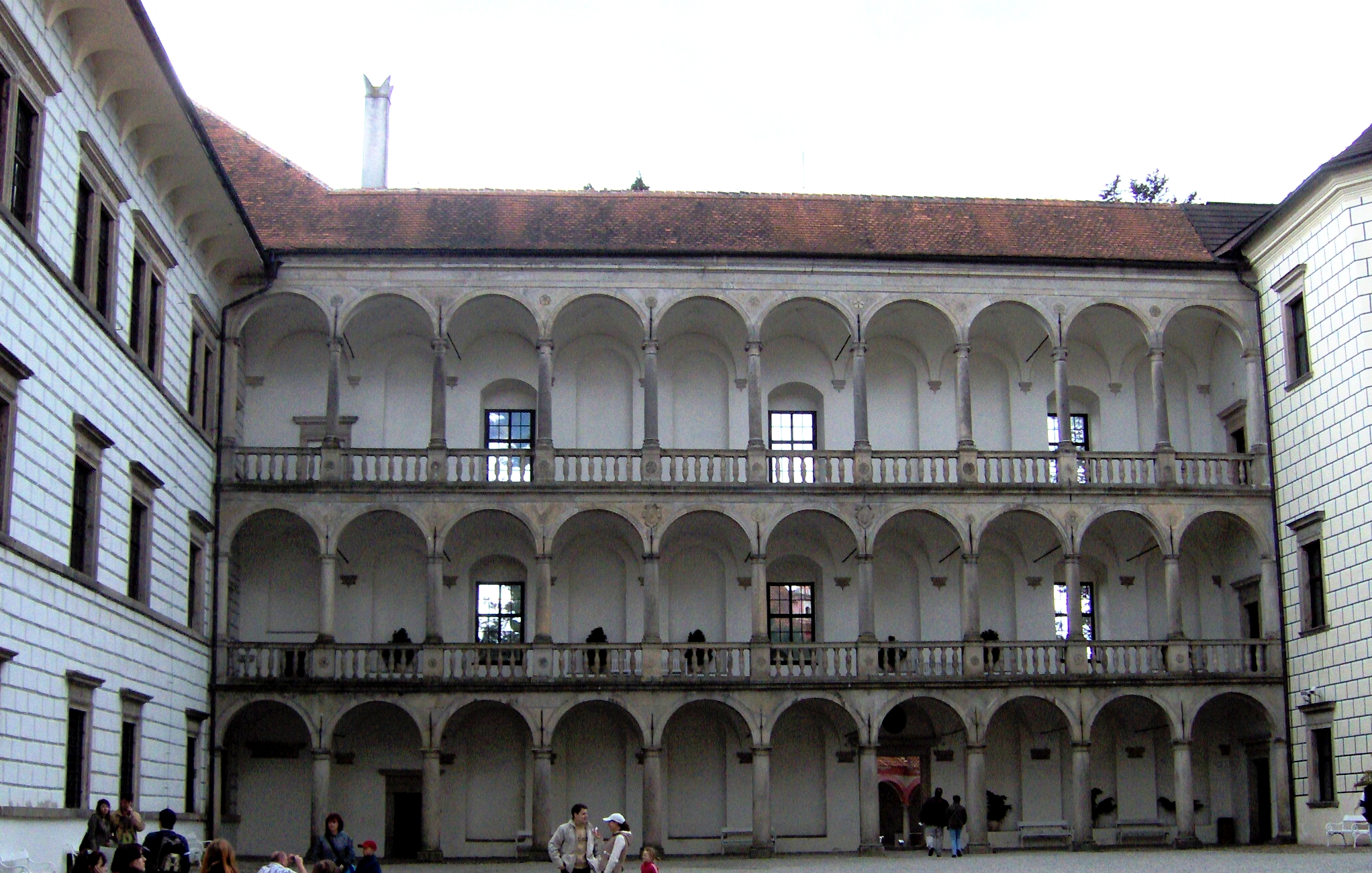 Castle in Jindřichův Hradec, South Bohemian Region, Czech republic